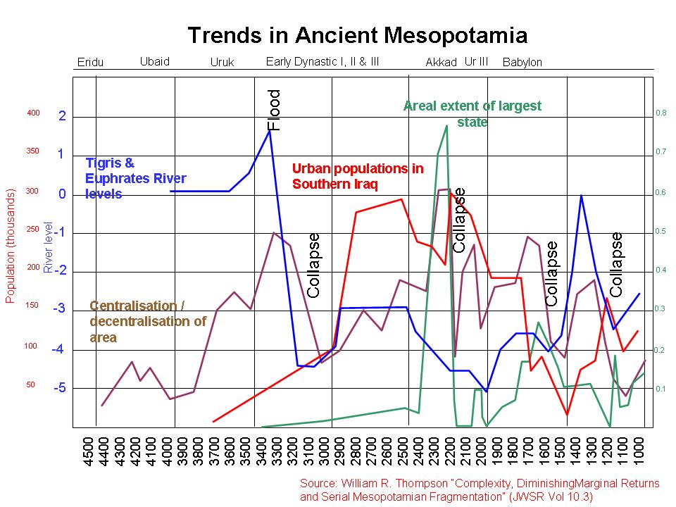 A graph of trends in ancient Mesopotamia. Redrawn using PowerPoint with data taken from four separate graphs in the research of William R. Thompson ("Complexity, Diminishing Marginal Returns, and Serial Mesopotamian Fragmentation" (Fall 2004). Journal of World-Systems Research 10 (3).)